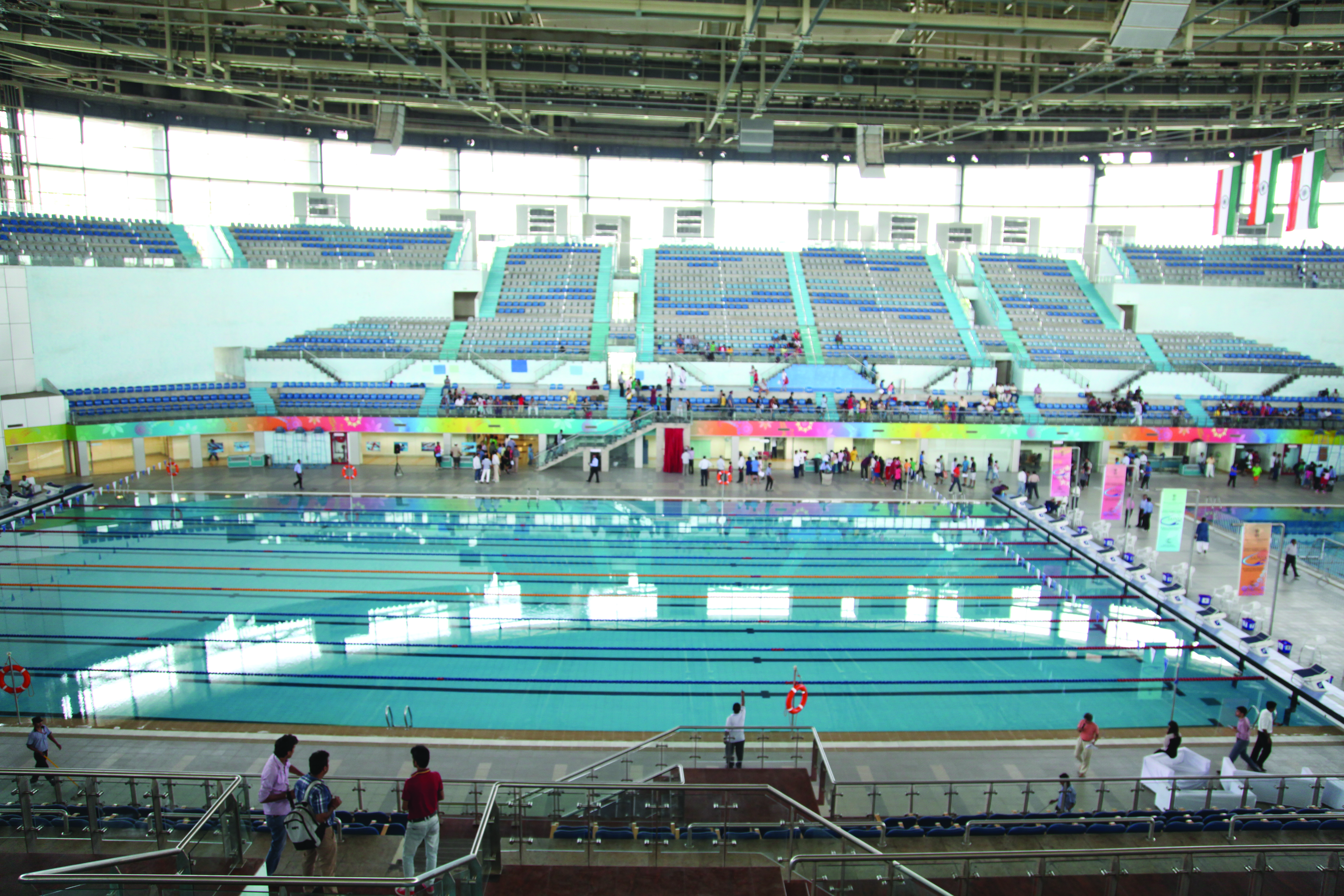 SAI National Swimming Academy (SAINSA)